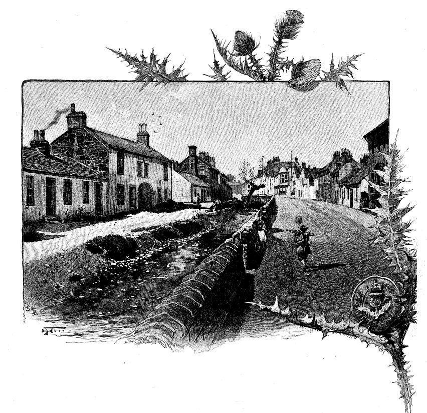 The birthplace of Carlyle, Echlefechan